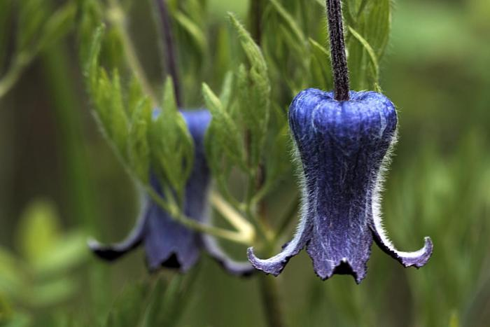 Clematis hirsutissima at Monty's Woods.